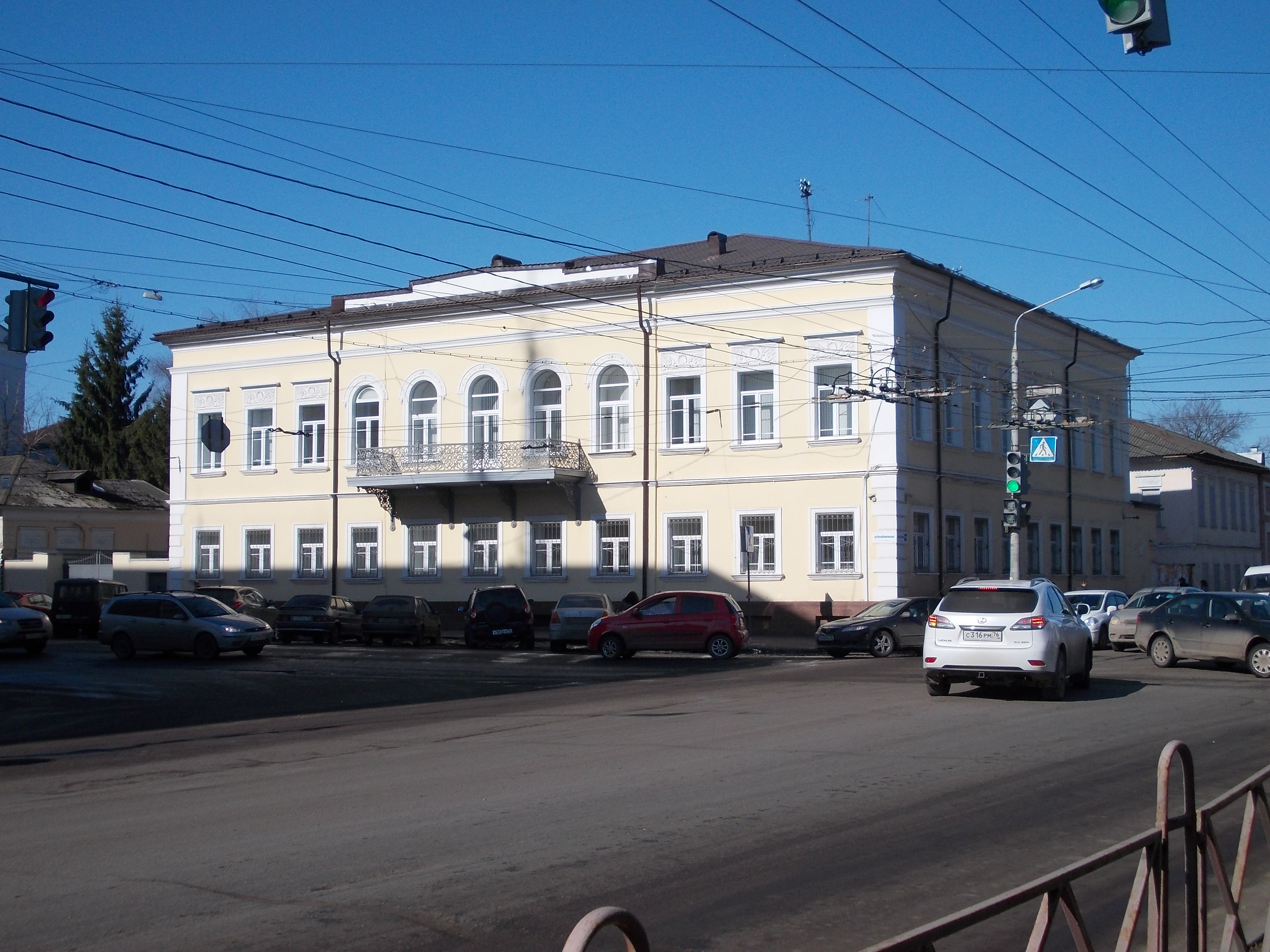 A building at the intersection of Respublikanskaya street and October avenue in Yaroslavl.